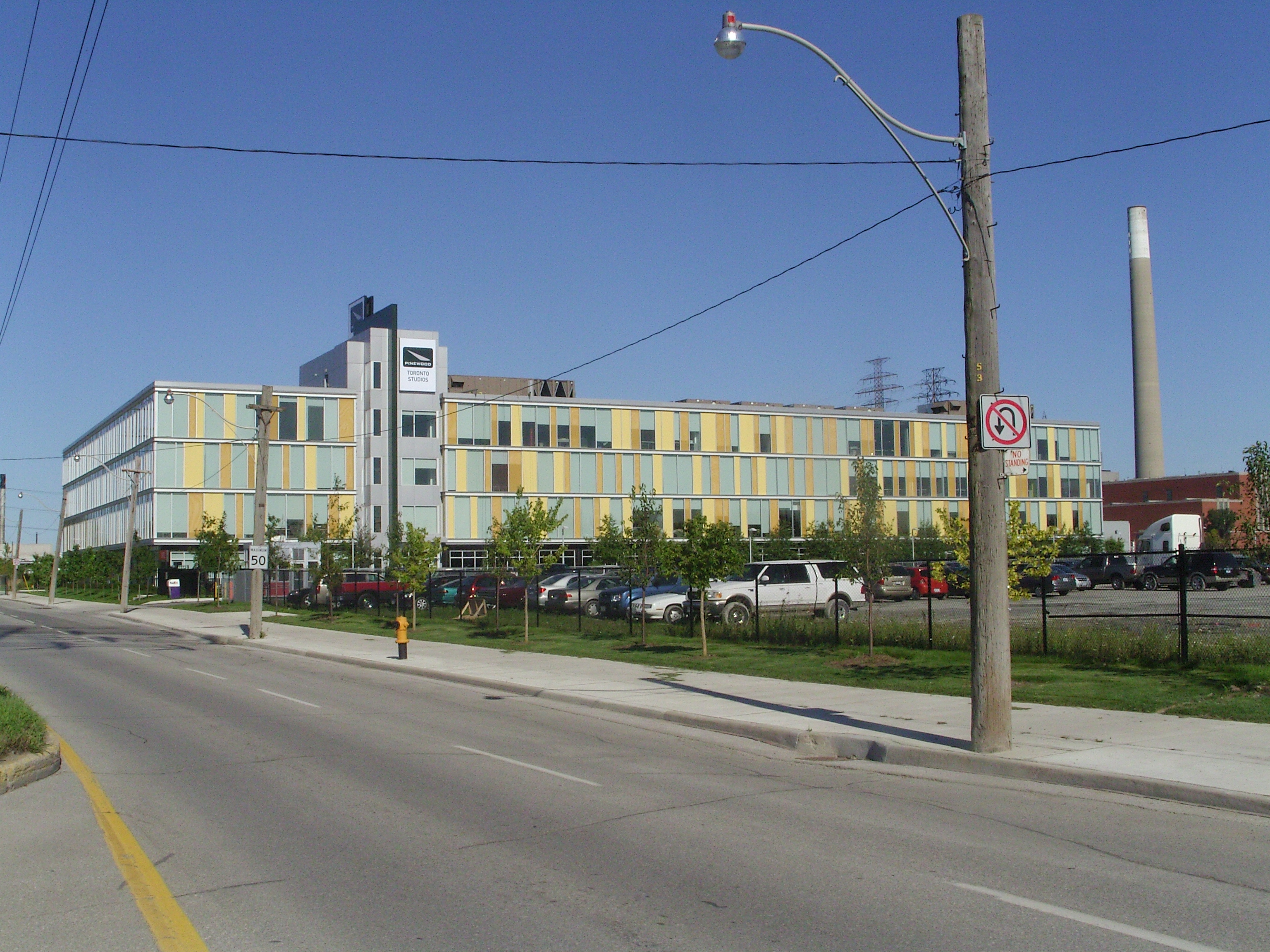 Exterior of Toronto Pinewood Studios, August, 2009.